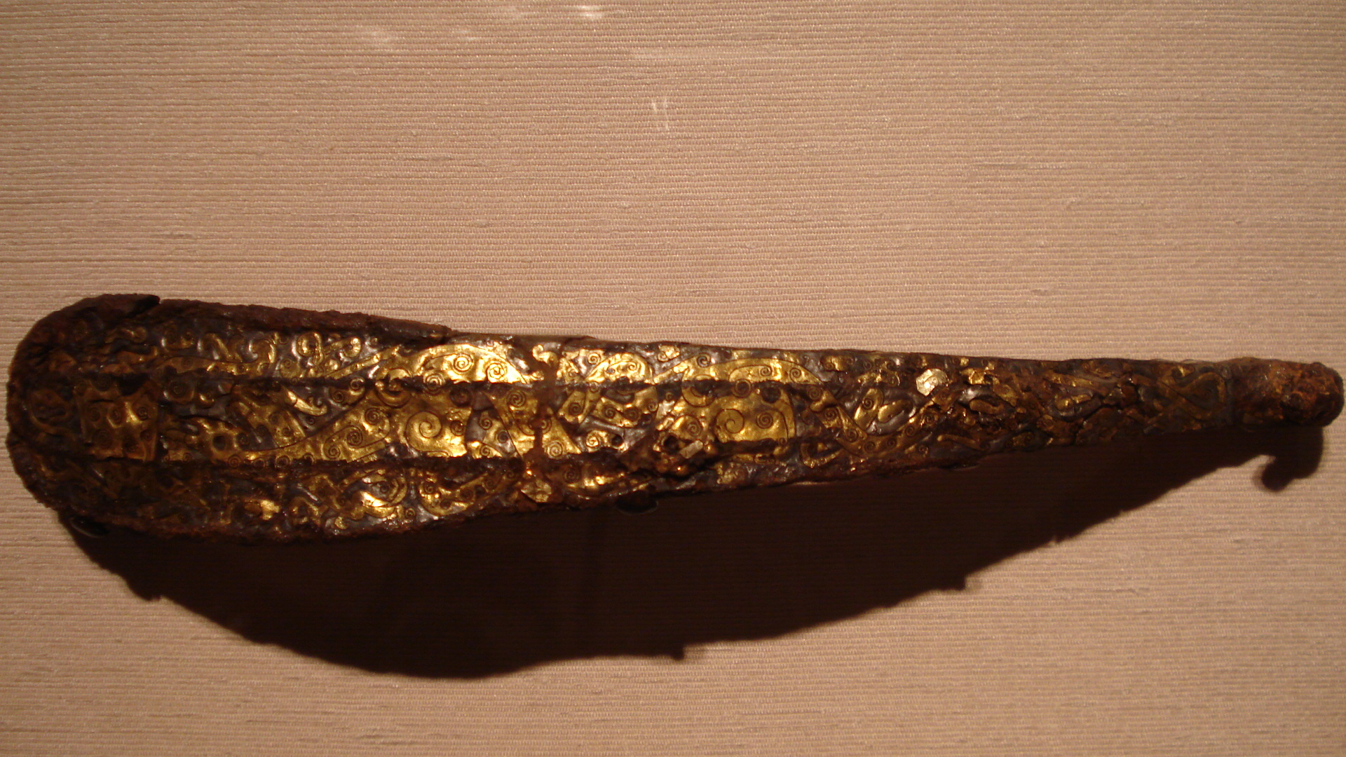 A Chinese cast iron garment hook with gold and silver foil, from the Eastern Zhou Dynasty, dated to the 4th century BC.